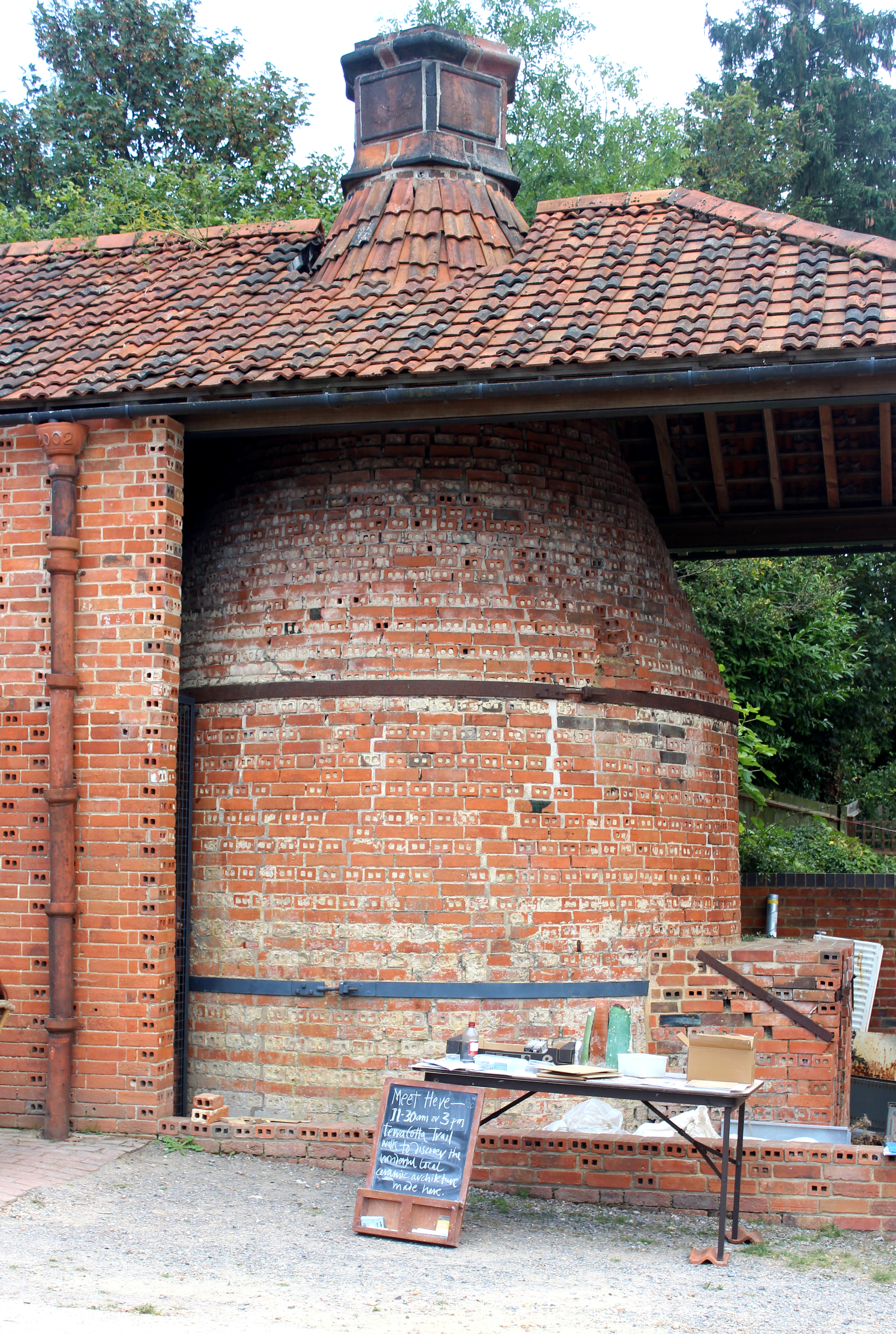 The bottle kiln used by the Farnham pottery.